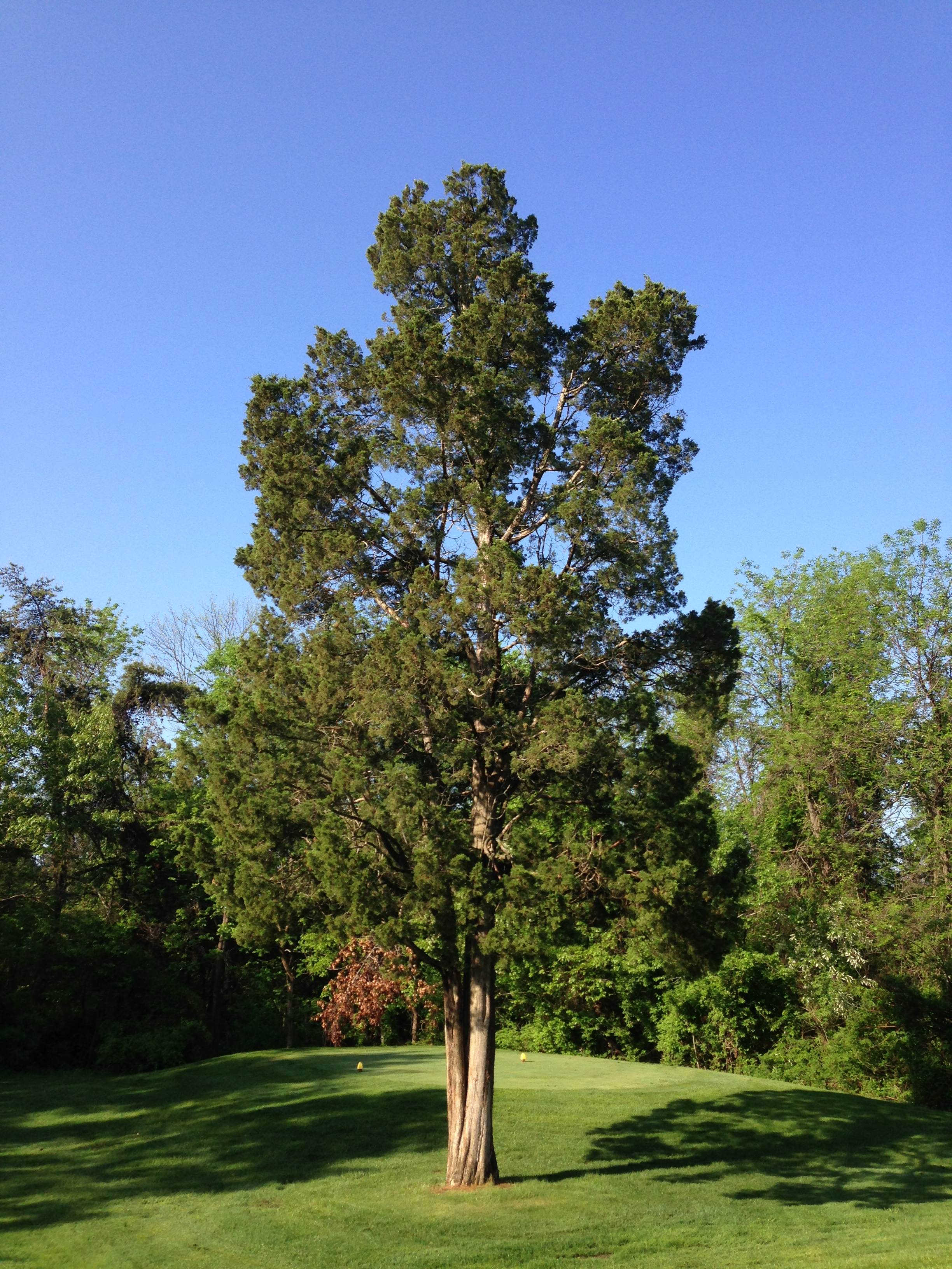 Eastern Red Cedar at South Riding Golf Course in South Riding, Virginia